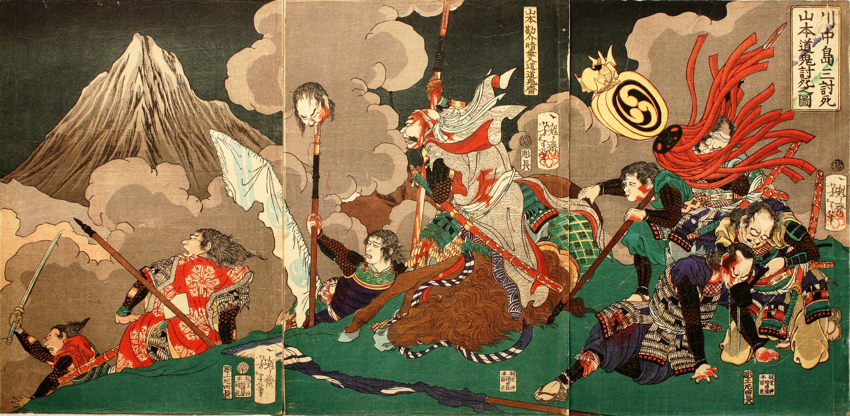 An ukiyo-e of Yamamoto Kansuke who killed in the battle of Kawanakajima.